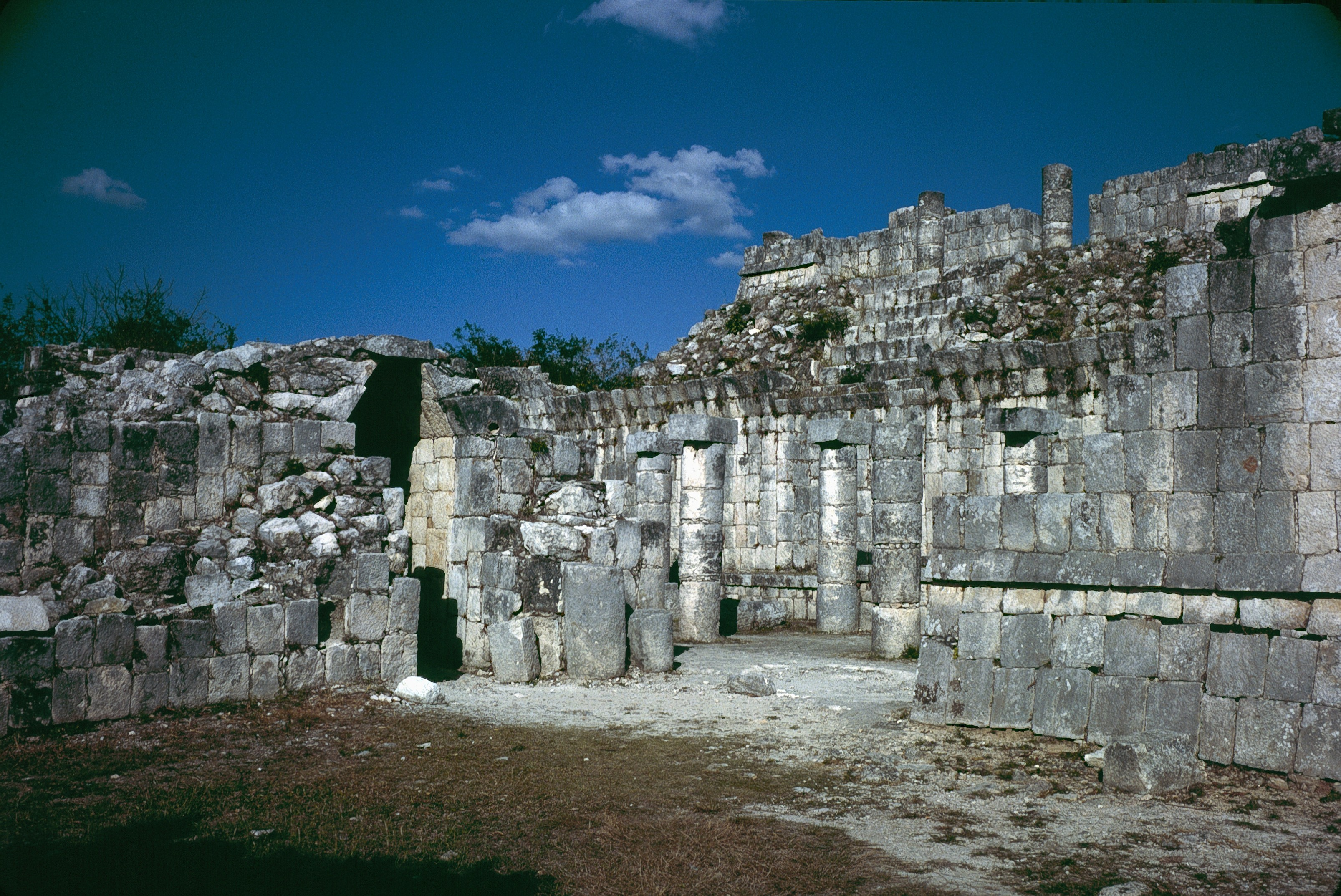 Chichen Itza, Yucatan, Mexico: Templo de los Tableros Esculpidos